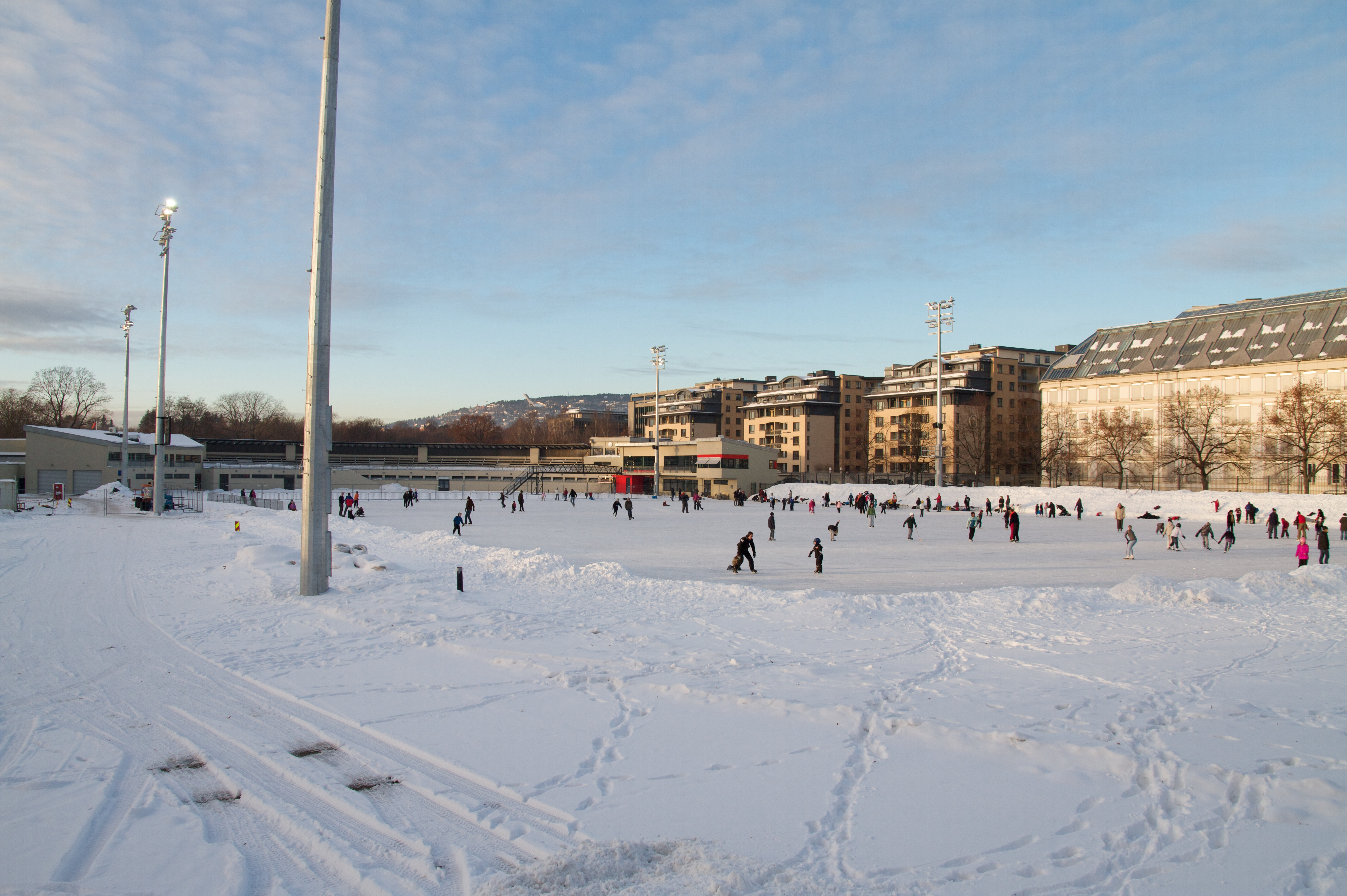 Frogner stadion, Oslo, Norway.